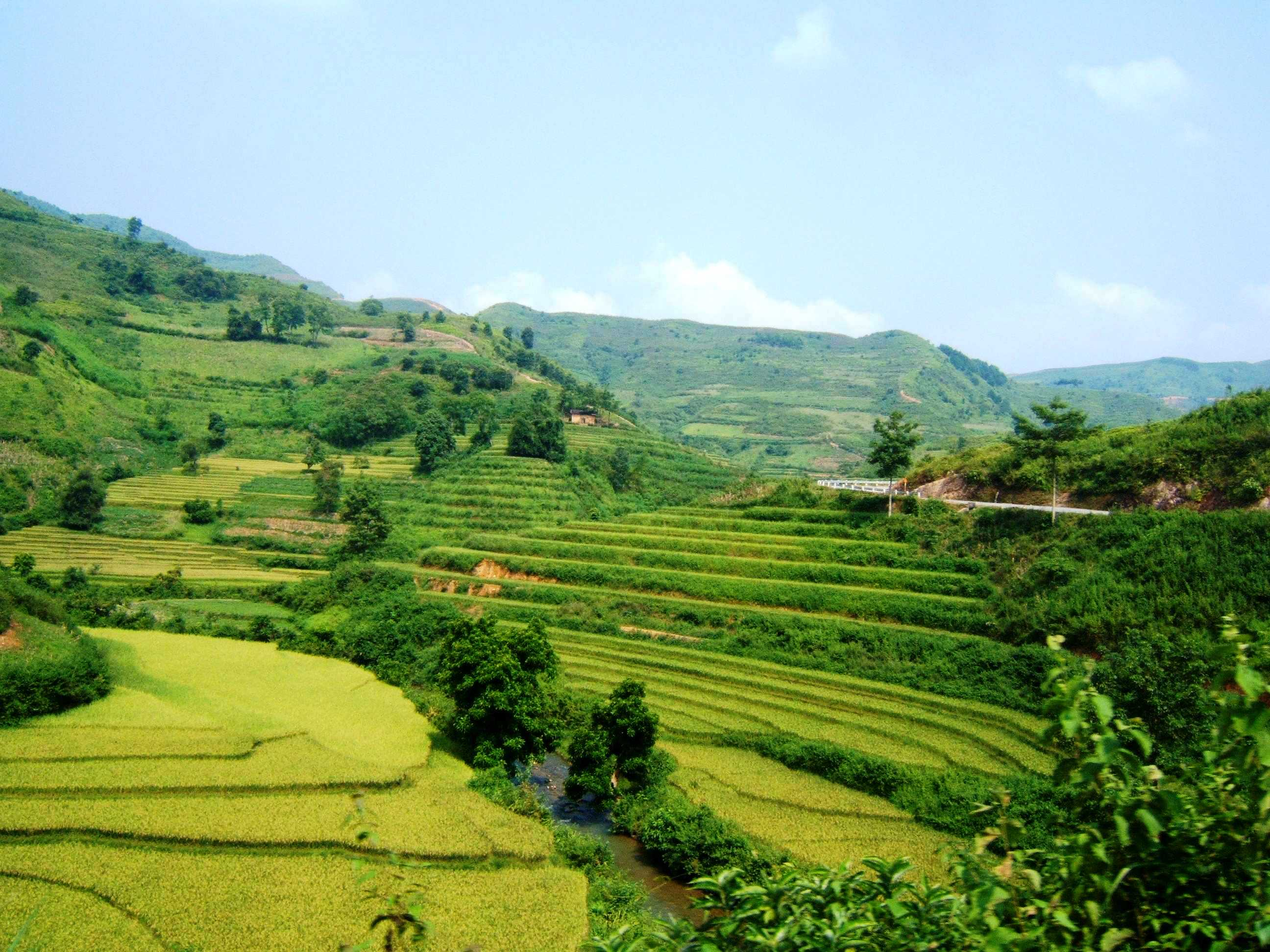 Autumn comes on, rice ripened in terrace field in Yên Minh district Hà Giang province, Vietnam. View from Road 4C.